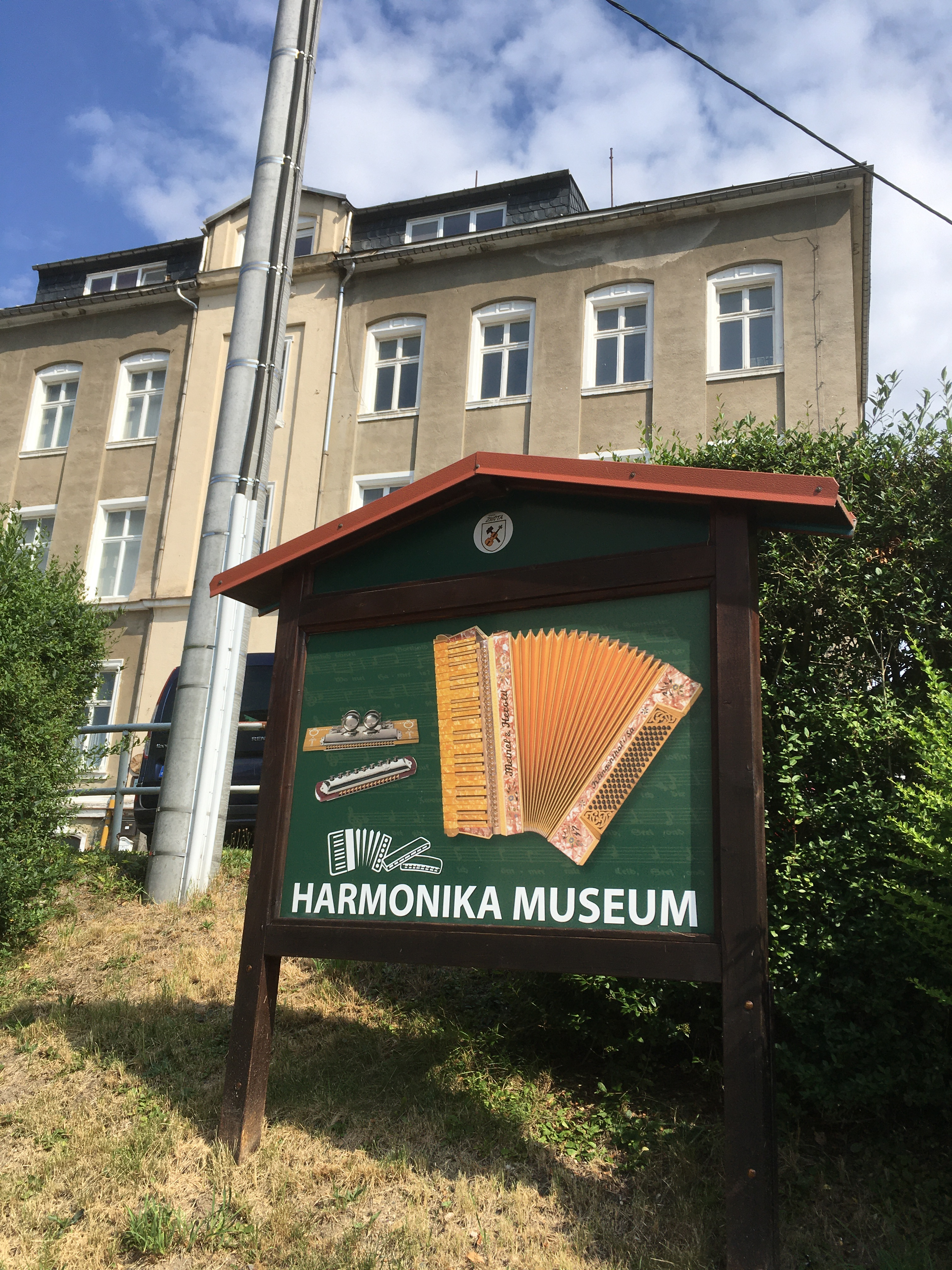 Harmonica museum Zwota, Germany